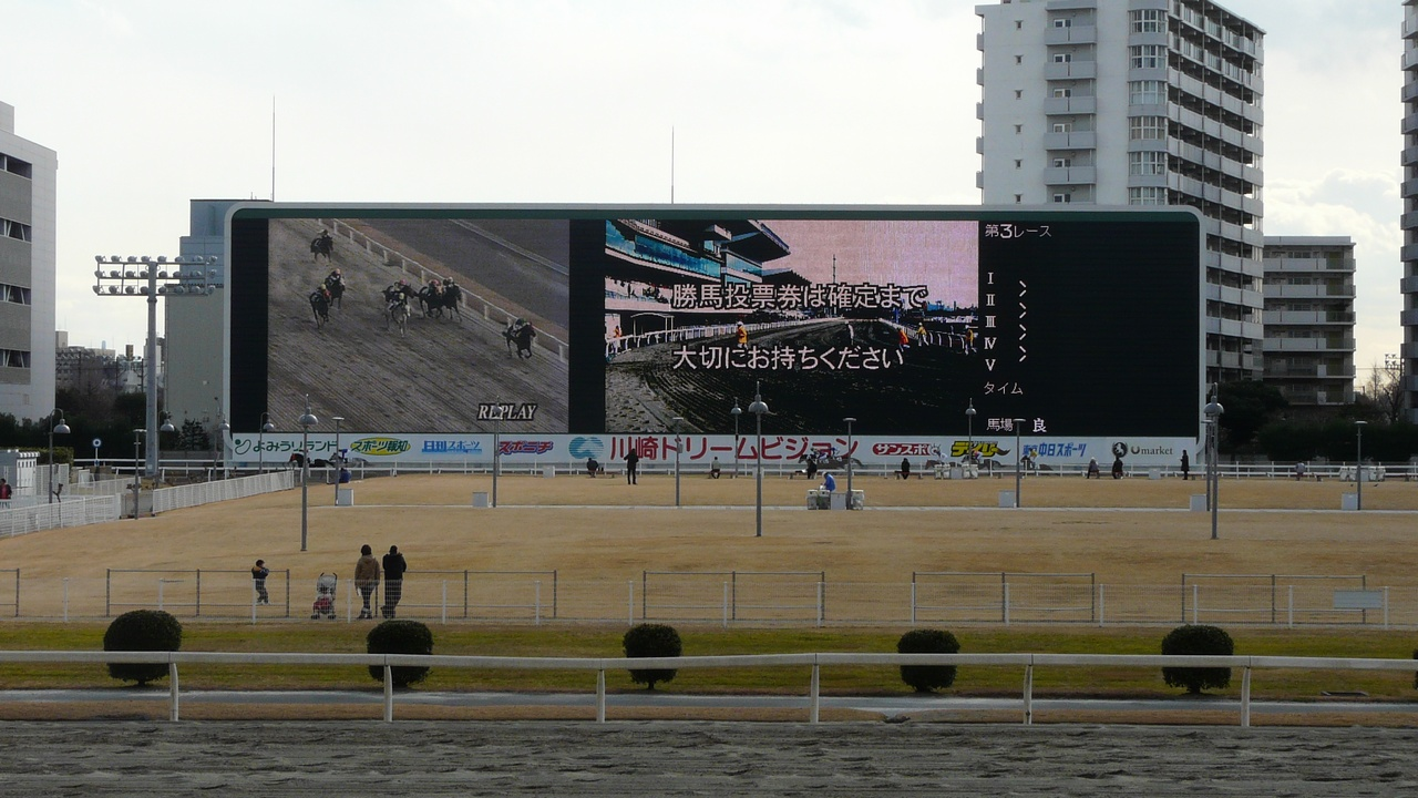 Kawasaki_Racecourse_006